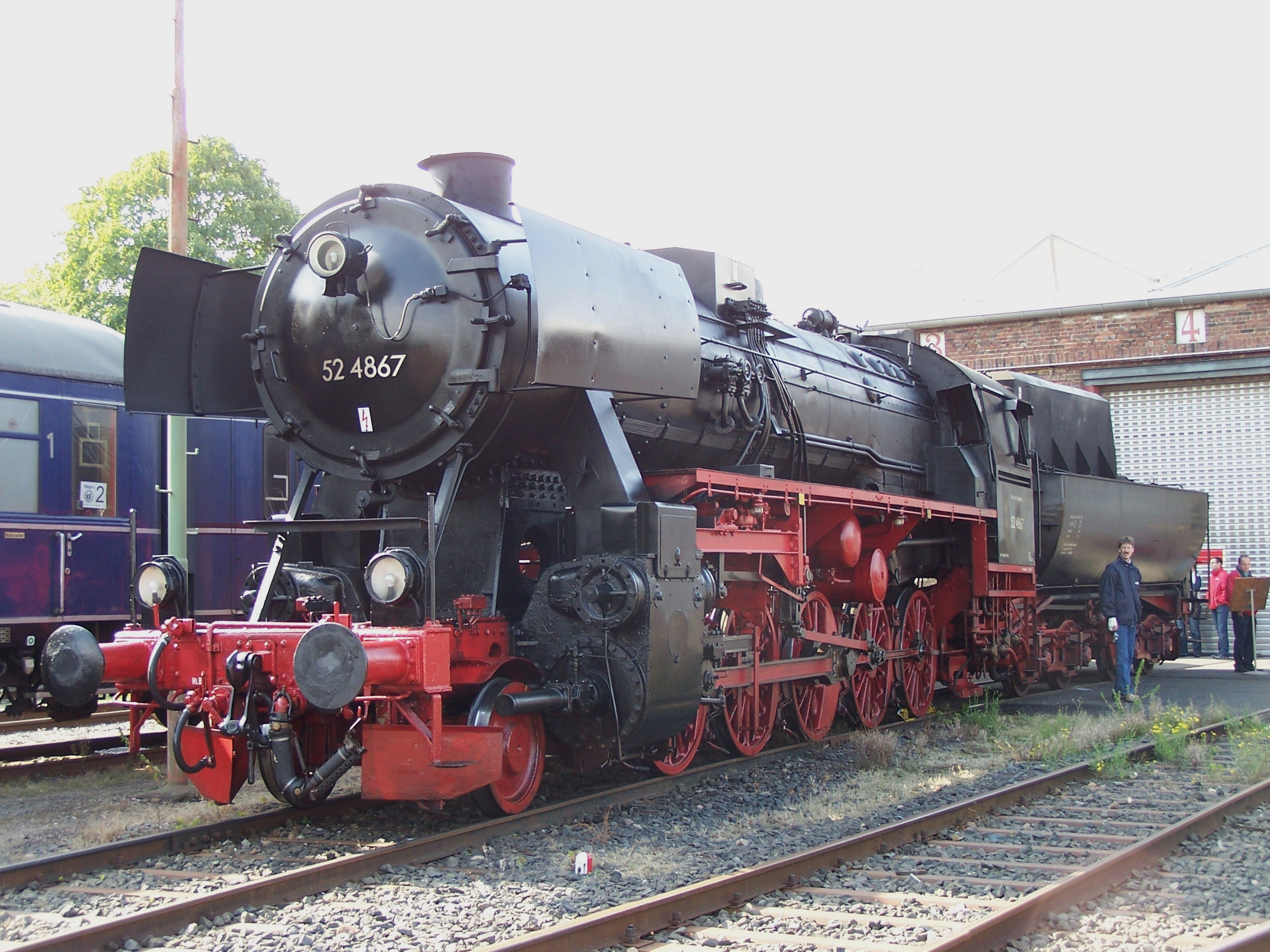 steam locomotive 52 4867 of Historische Eisenbahn Frankfurt on the ground of Hafenbahn Frankfurt am Main.